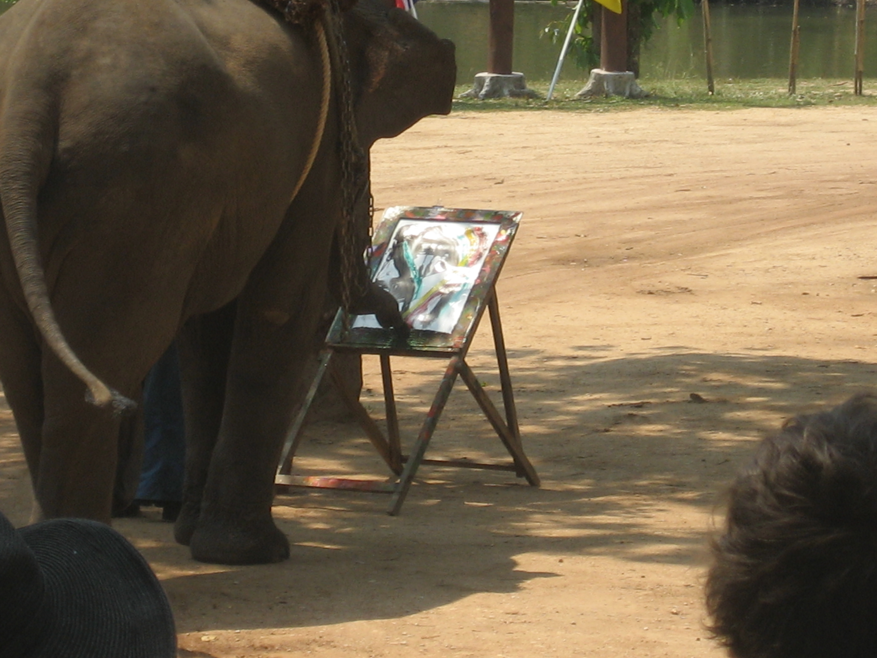 Elephant painting at the Thai Elephant Conservation Center, Lampang, Thailand